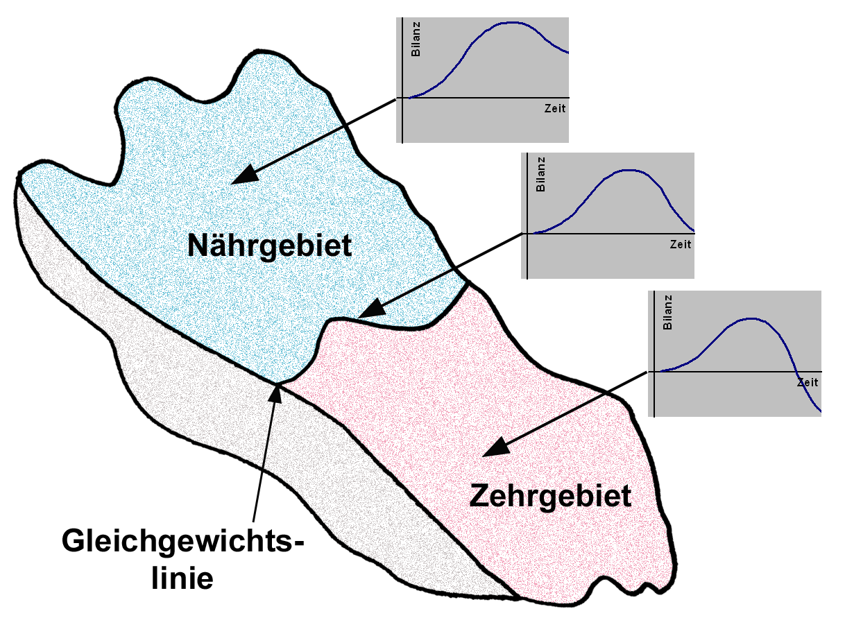 Glacier mass balance, variation of surface balance with altitute